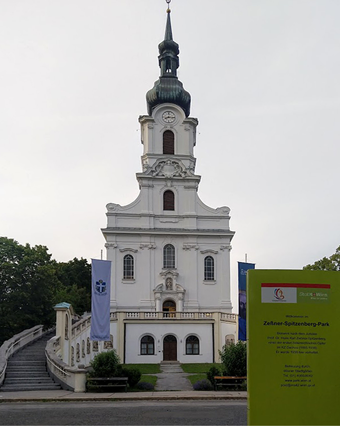 Kaasgrabenkirche with sign of the Zessner Spitzenberg Park, shot on opening of the park (17. 06. 2019)